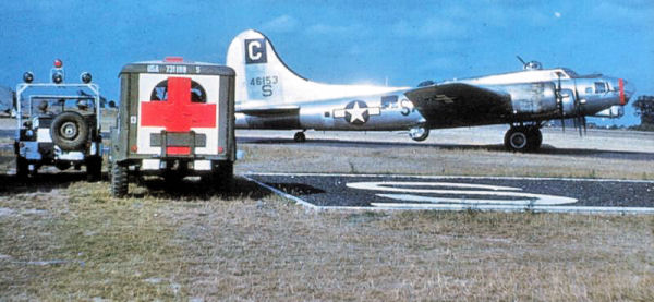 Lockheed/Vega B-17F-50-VE Fortress Serial 42-6153, of the 96th Bombardment Group based at RAF Snetterton Heath. This aircraft survived the war and was sent to RFC Kingman 30 October 1945.